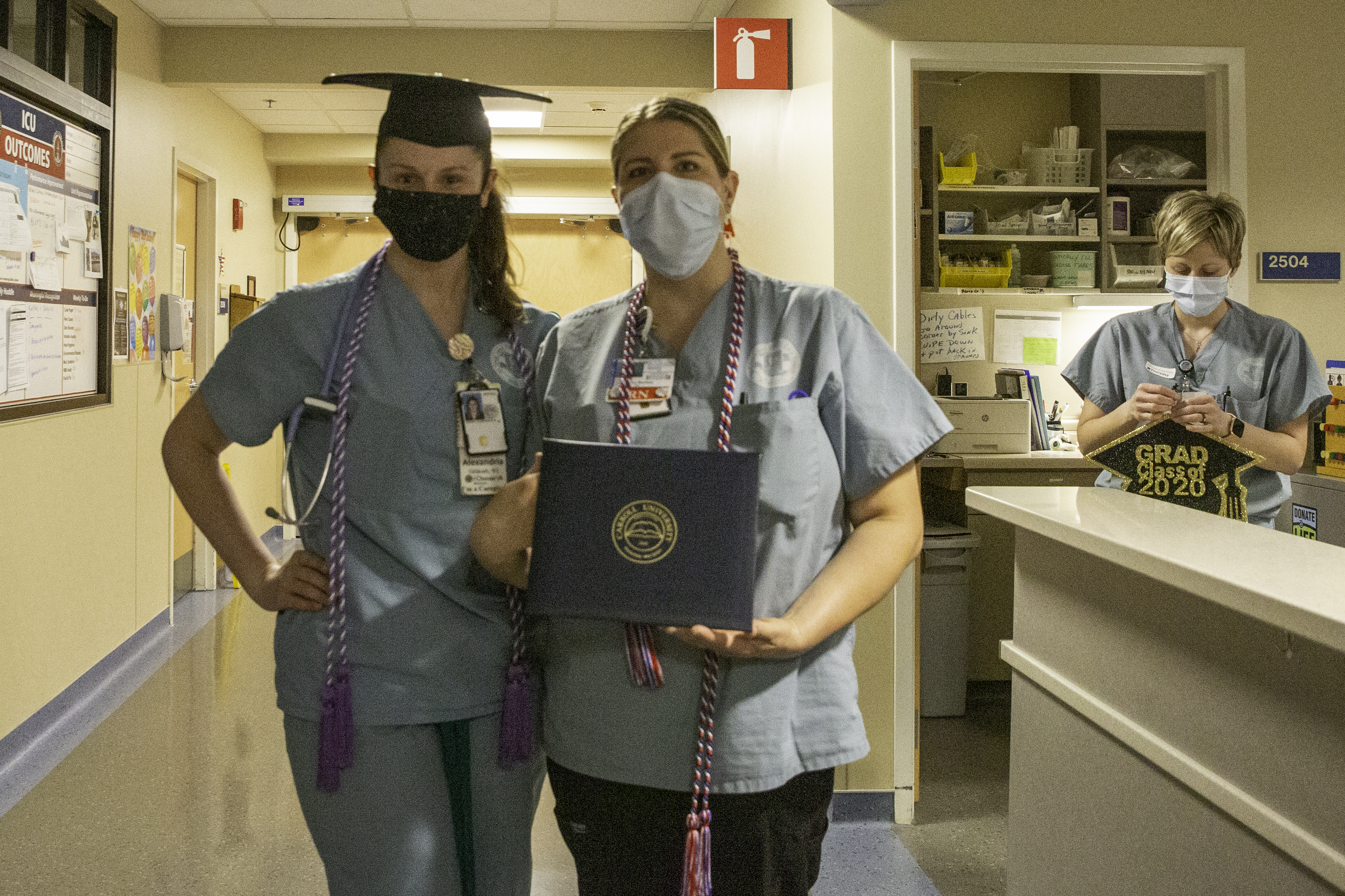 Nurses graduation in ICU during COVID-19 pandemic